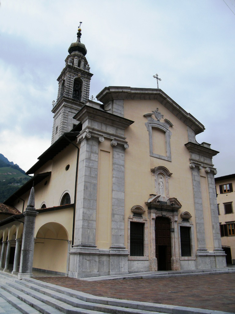 Sanctuary of St Mary of Grace. Ardesio